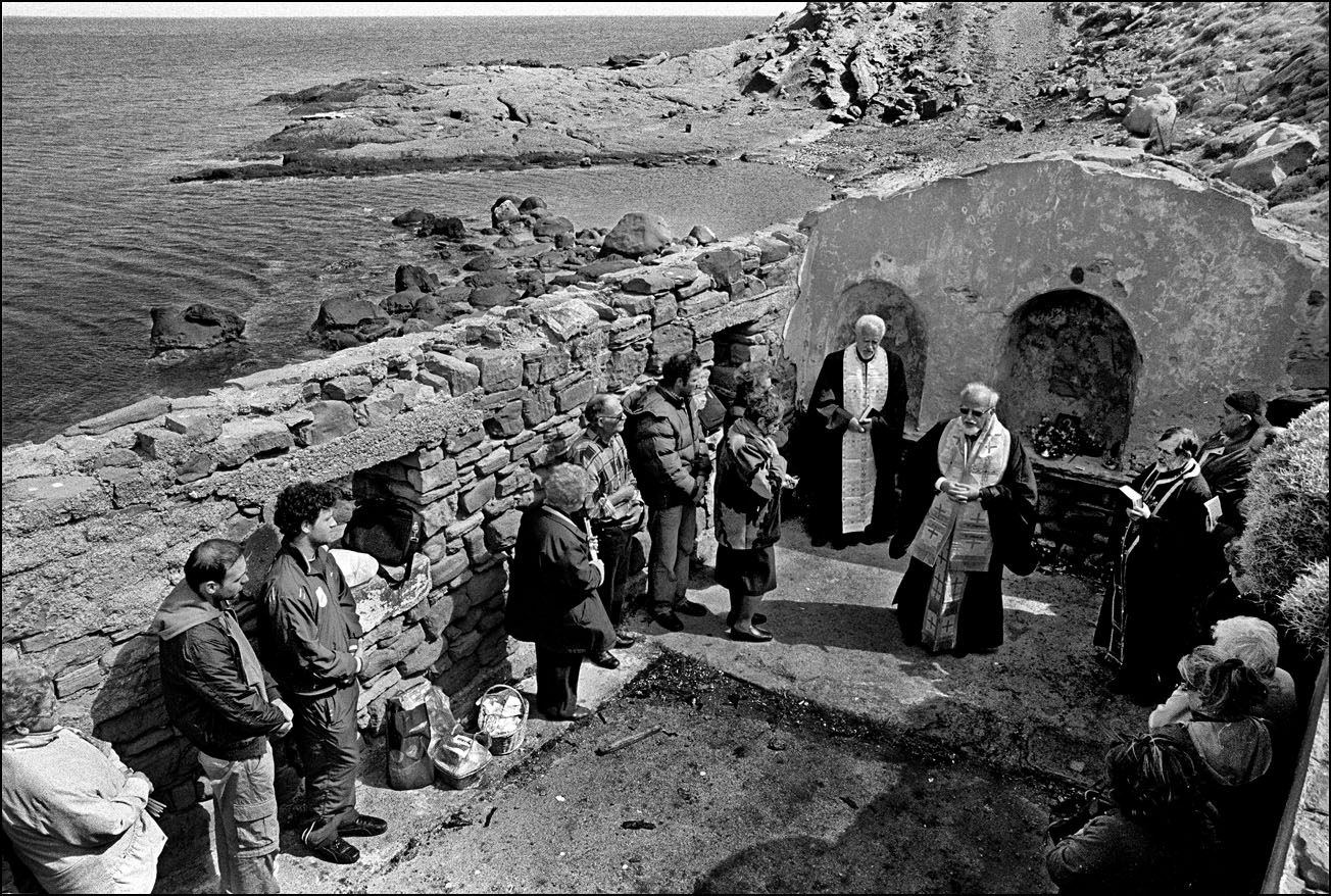 Metropolitan Kyrillos (Dragounis) celebrate Divine Liturgy at the ruined Greek-orthodox church of Kardamos, in Gökçeada, Turkey